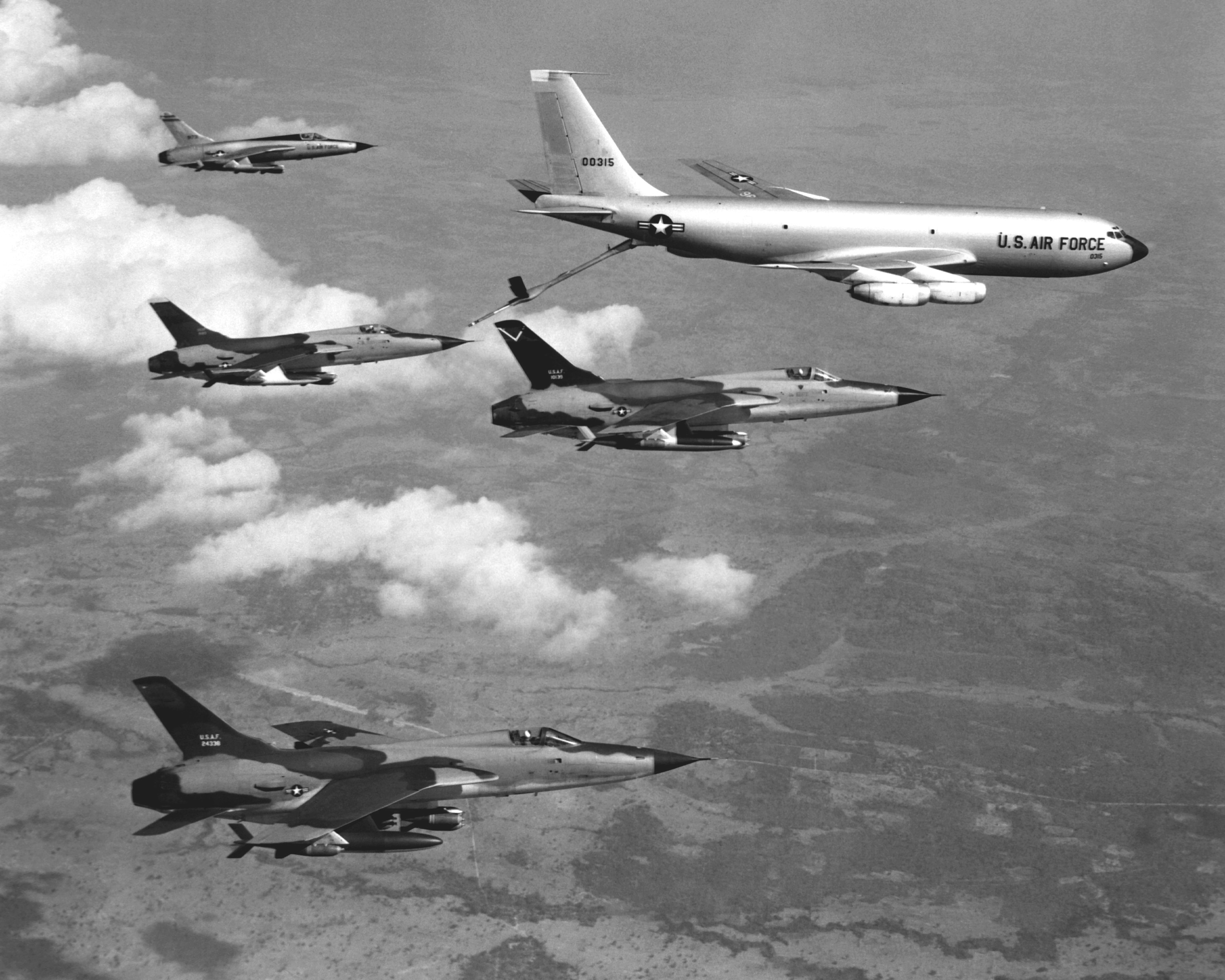 Four U.S. Air Force Republic F-105D Thunderchief aircraft of the 4th Tactical Fighter Wing are refueled on their way to North Vietnamse targets by a Boeing KC-135A Stratotanker aircraft in 1965. The F-105s visible are (front to back): 62-4338, which was shot down on 2 September 1967 (333 TFS, the pilot was killed); 61-0139; unknown; 59-1771 (c/n D83), it was retired to the MASDC as FK0048 on 25 June 1981, and is today on display at Circleville, Ohio (USA). The KC-135A-BN 60-0315 (c/n 18090) was later converted to an KC-135R. Note: as the 61-0139 wears 4th TFW markings and the 59-1771 is still without camouflage the photo was most probably taken in 1965. The 4th was rotated to the U.S. in 1965-66, leaving its F-105s in South East Asia.